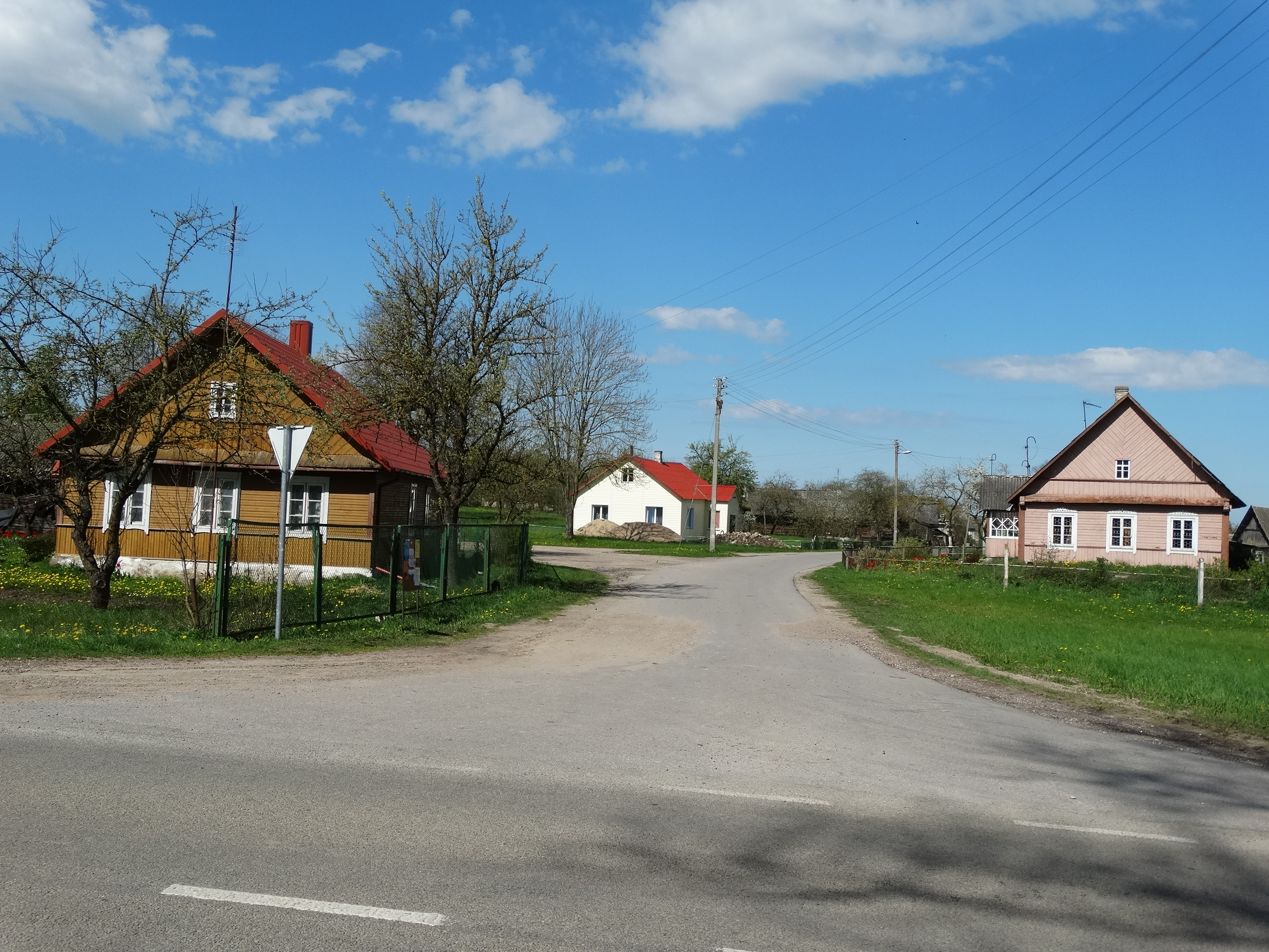 Dailidės, Šalčininkai District, Lithuania